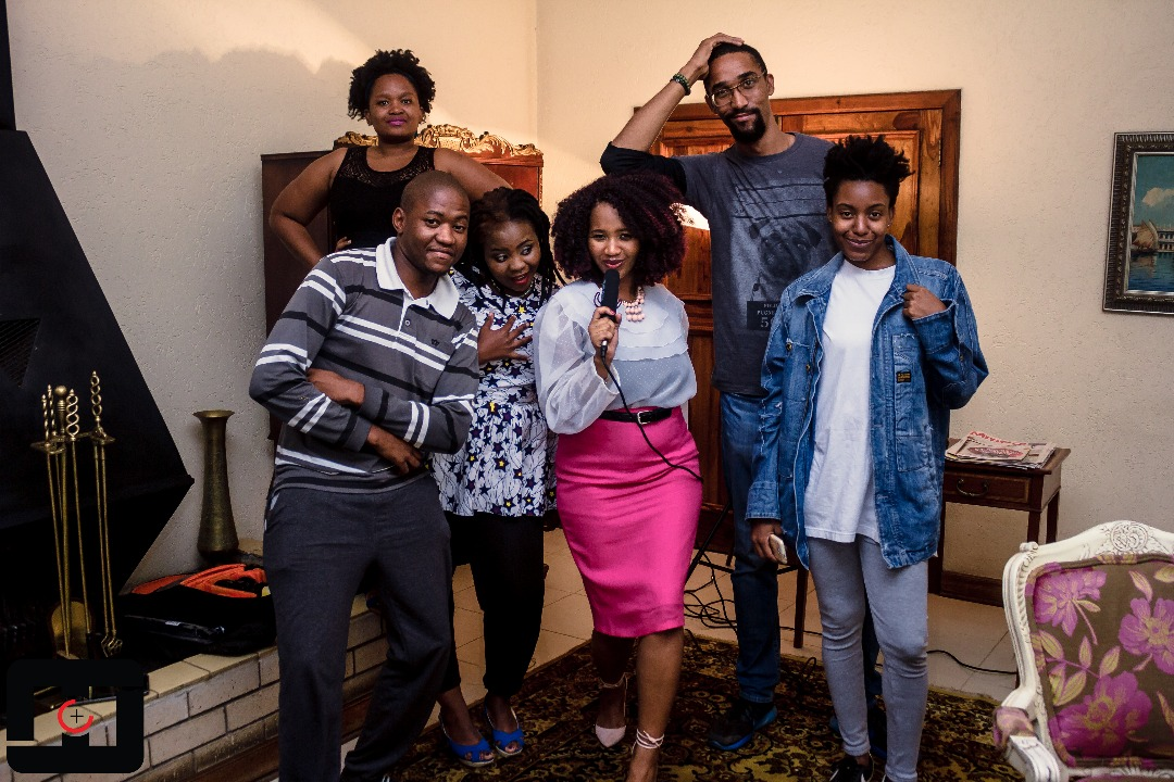 Picture of my team and I at work, shooting Sundays With Gauta Talk Show This is an image of "African people at work" from Botswana